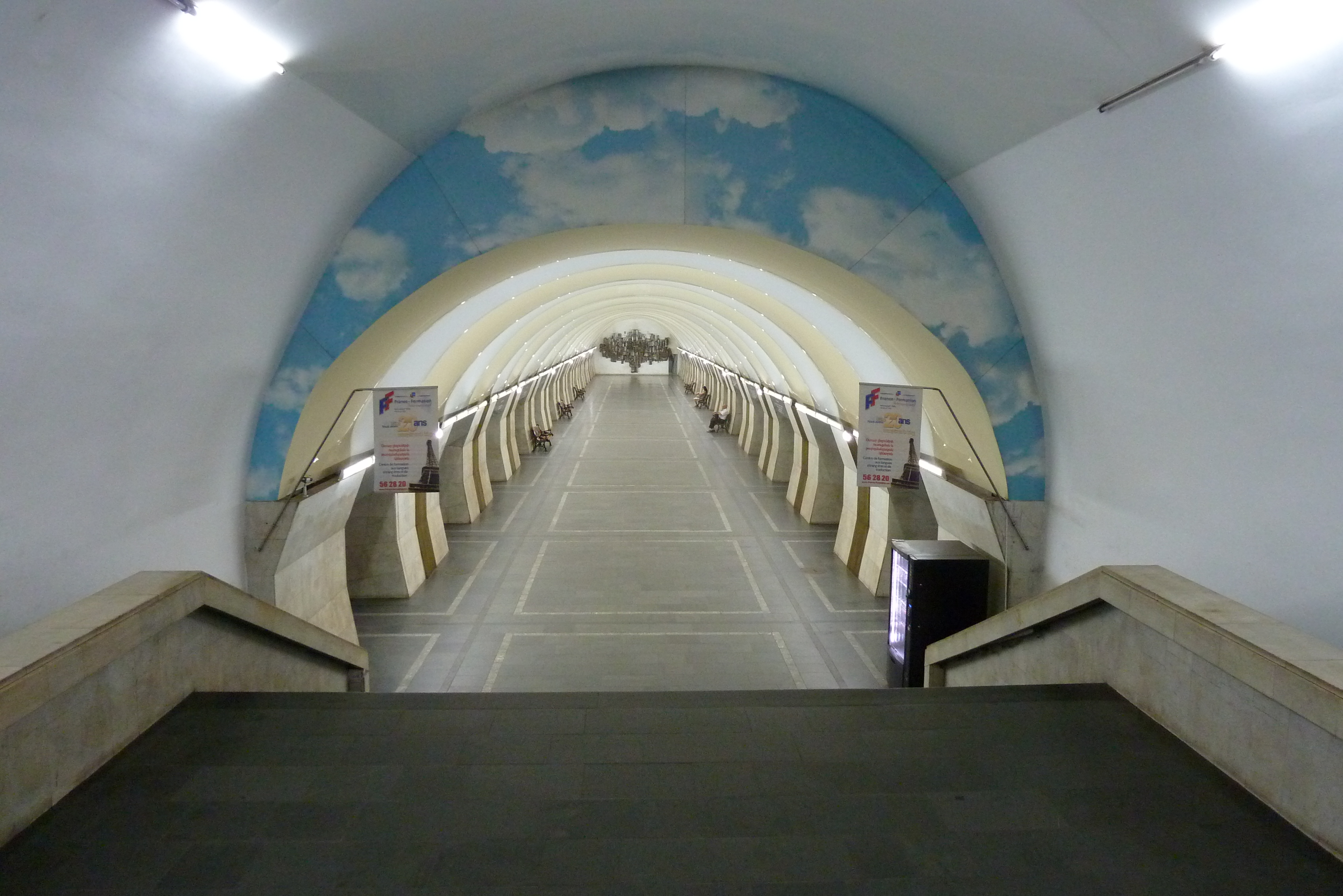 Yeritasardakan metro station in Yerevan, Armenia